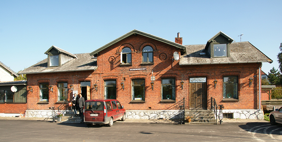 Local community house (Medborgerhuset) in Lundby, a village in southern part of Sjælland, Denmark, in a former local Inn (Lundby Kro). The community house functions as a local center for cultural and social activities.